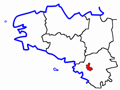 Description: Map for localisazion of cantons of Pays-de-Loire, region in France Source: made by Hervé Tigier in april 2005 from another large map (published in 1990)